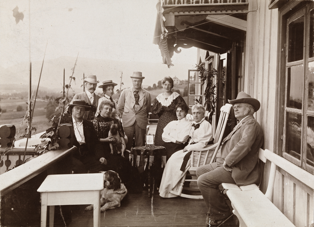 Tittel / Title: Bjørnson med familie på Aulestad Motiv / Motif: Bak fra venstre.: Einar Bjørnson, Elsbeth Bjørnson, Bjørn Bjørnson, Anna Bjørnson. Foran fra venstre: Erling Bjørnson, Gina Oselio (med en hund på fanget), Bergliot Ibsen, Karoline Bjørnson, Bjørnstjerne Bjørnson. Fotografi av Sigurd Ibsen på bordet. Dato / Date: 1887 Fotograf / Photographer: Vinsnes Dahl. Sted / Place: Oppland, Gausdal, Aulestad Eier / Owner Institution: Nasjonalbiblioteket / National Library of Norway Lenke / Link: Bildesignatur / Image Number: Bildesignatur: no-nb_bldsa_BB1019